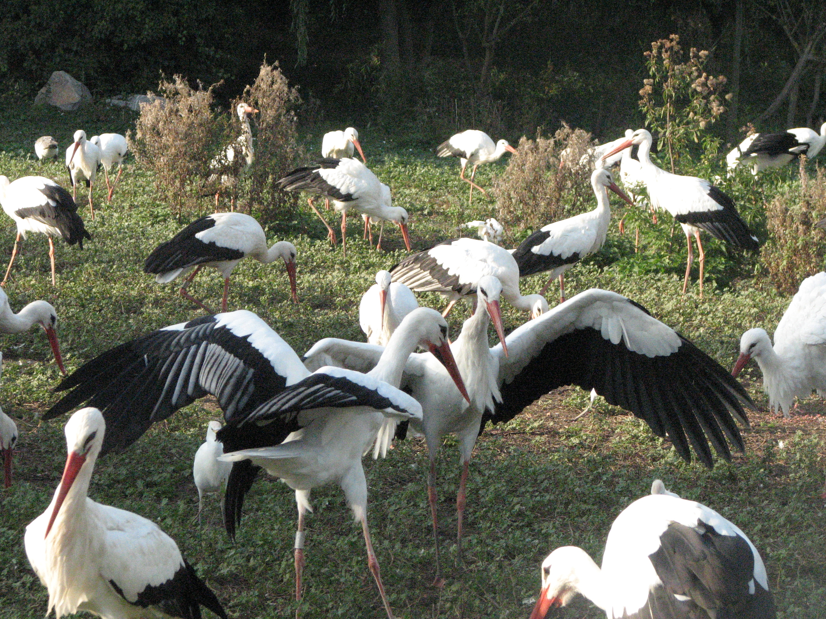 White Stork (Ciconia ciconia) group